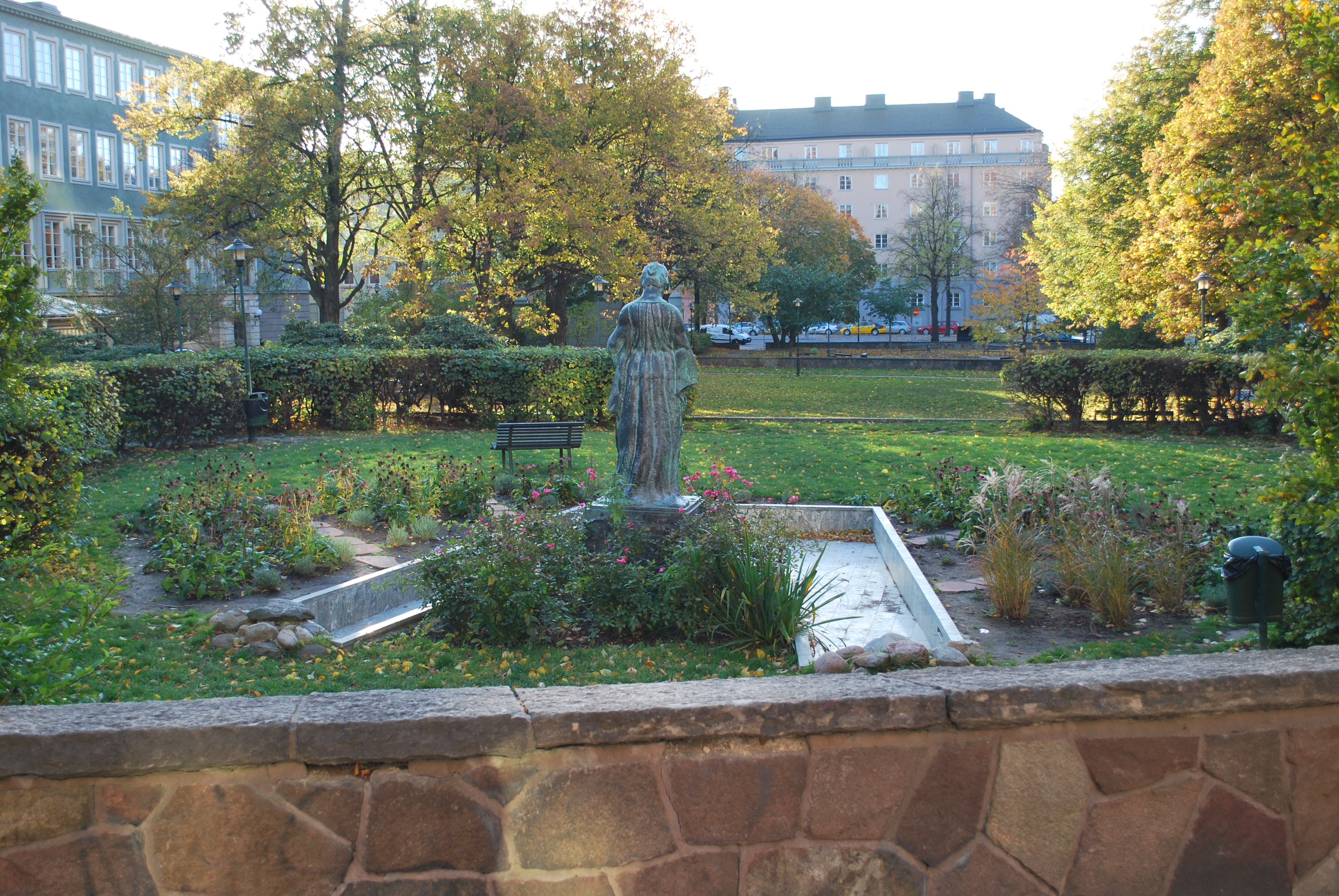 Ellen Keys park in Östermalm in Stockholm, Sweden with Ellen Key, bronze statue by Sigrid Fridman (1879–1963), erected 1953. Seen from Karlavägen.